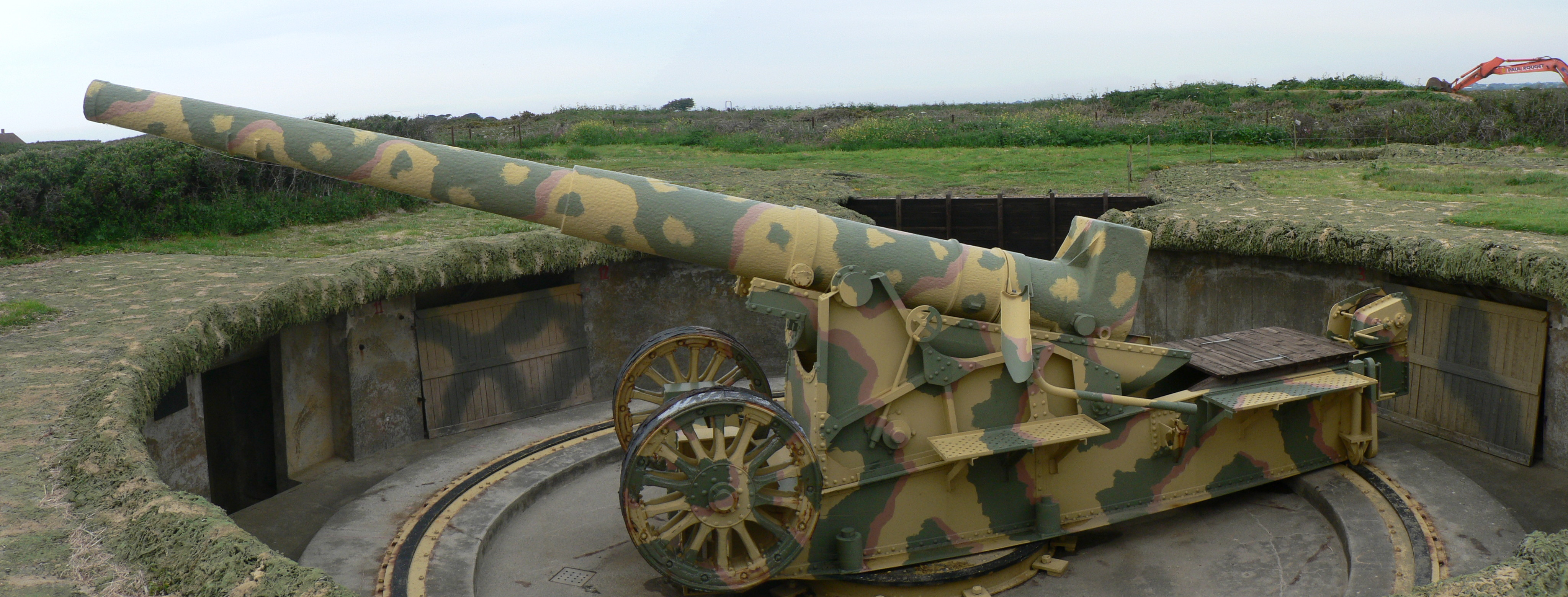 Reconstruction of Canon de 220 L mle 1917 Schneider, German designation 22-cm K532(f), at "Batterie Dollmann". The barrel and wheels are original, having been recovered from the bottom of 100 mtr cliffs by Guernsey Armouries. The chassis was recontructed by Marine & General Engineers of Guernsey using original blueprints loaned by the French M.O.D. to Guernsey Armouries. The barrel alone weighs 7.5 tonnes.